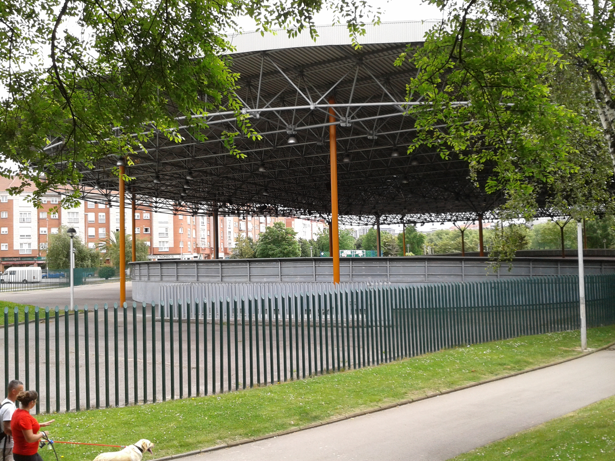 Roller speedskating track of Moreda-El Natahoyo (Xixón)